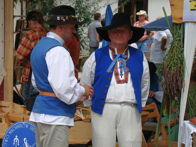 Raft sailors from Ulanów